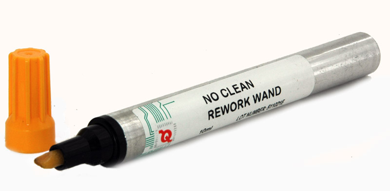 A pen-type flux applicator